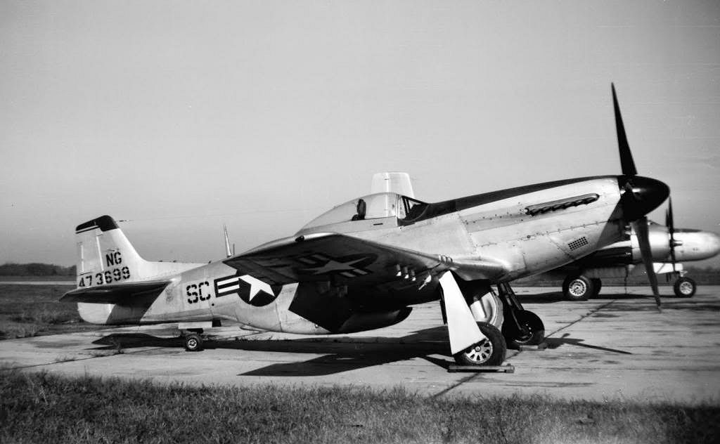 SC ANG 57th Fighter Squadron North American P-51D-25-NA Mustang 44-73699 Note "NG" on tail, indicating this photo was taken before the Air National Guard came into being in September 1947